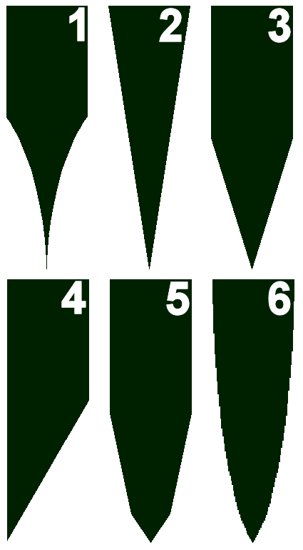 Grinds. Six (6) shapes of ground blades. Created by Waerloeg.